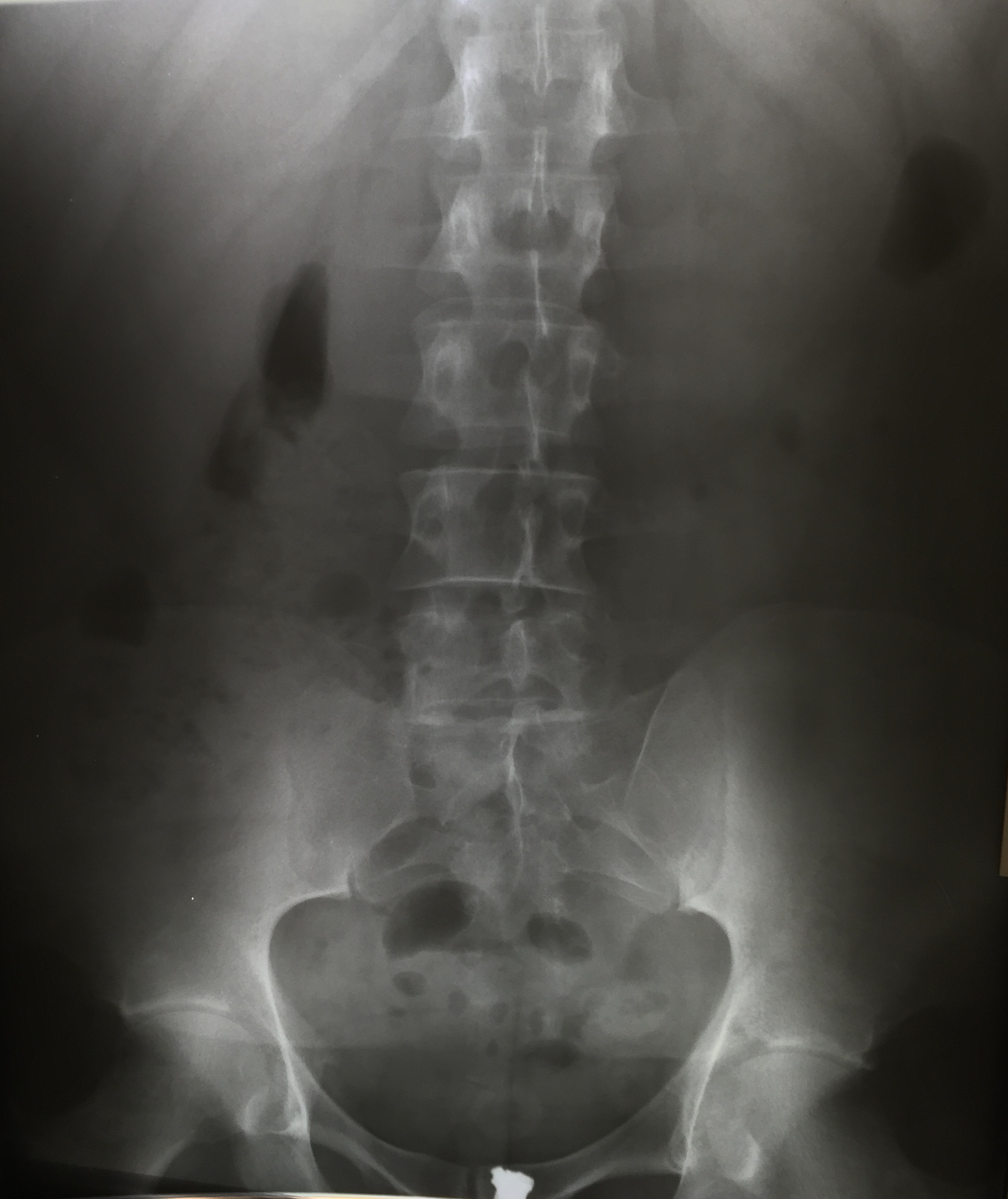 AP lumbar x-ray of a 34-year-old male